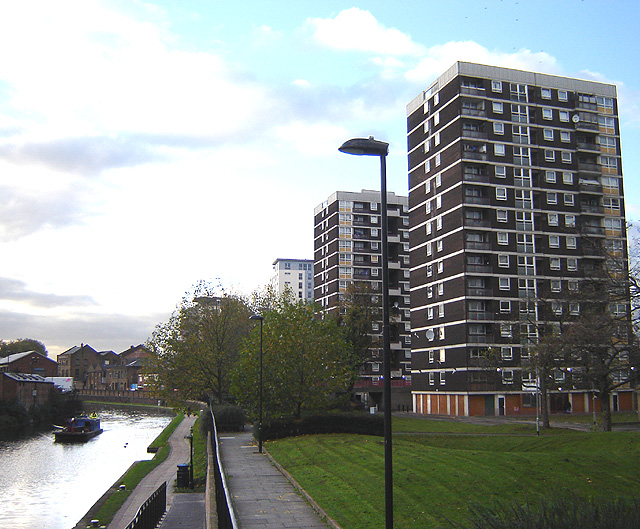 De Beauvoir Estate, De Beauvoir Town, Hackney, London. 15 November 2005. Photographer: Fin Fahey.